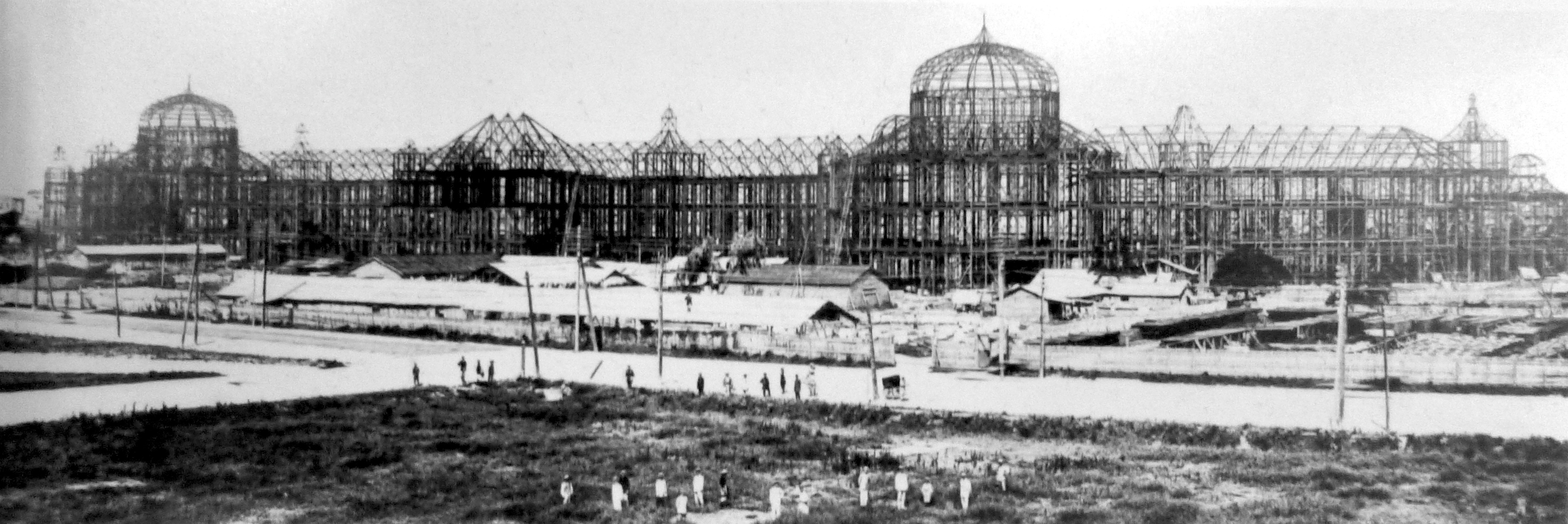 Construction of Tokyo Station. This is the steel framework, completed in September 1911.